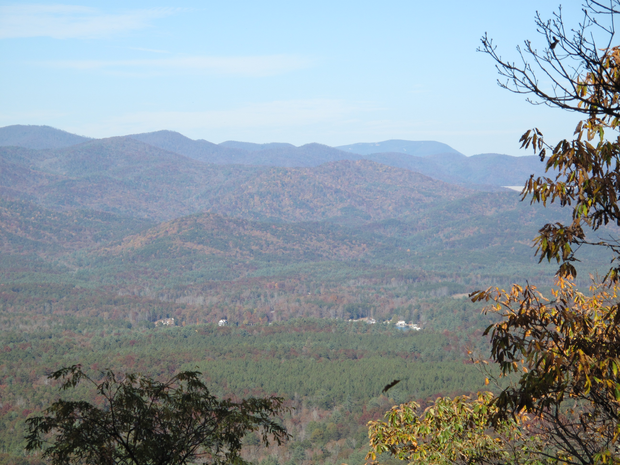 Picture of the Blue Ridge Mountains of Tamassee, South Carolina as taken from Tamassee Knob Mountain